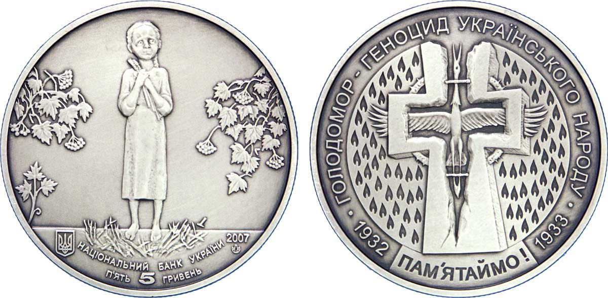 5 Hryven Commémoration de Holodmor, la grande famine de 1932-1933. Cette pièce fut frapée en 2007. Holodomor (“extermination par la faim “ en ukrainien) est le nom spécifique donné à l'extension en Ukraine de la grande famine survenue entre 1932 et 1933 en urss. .